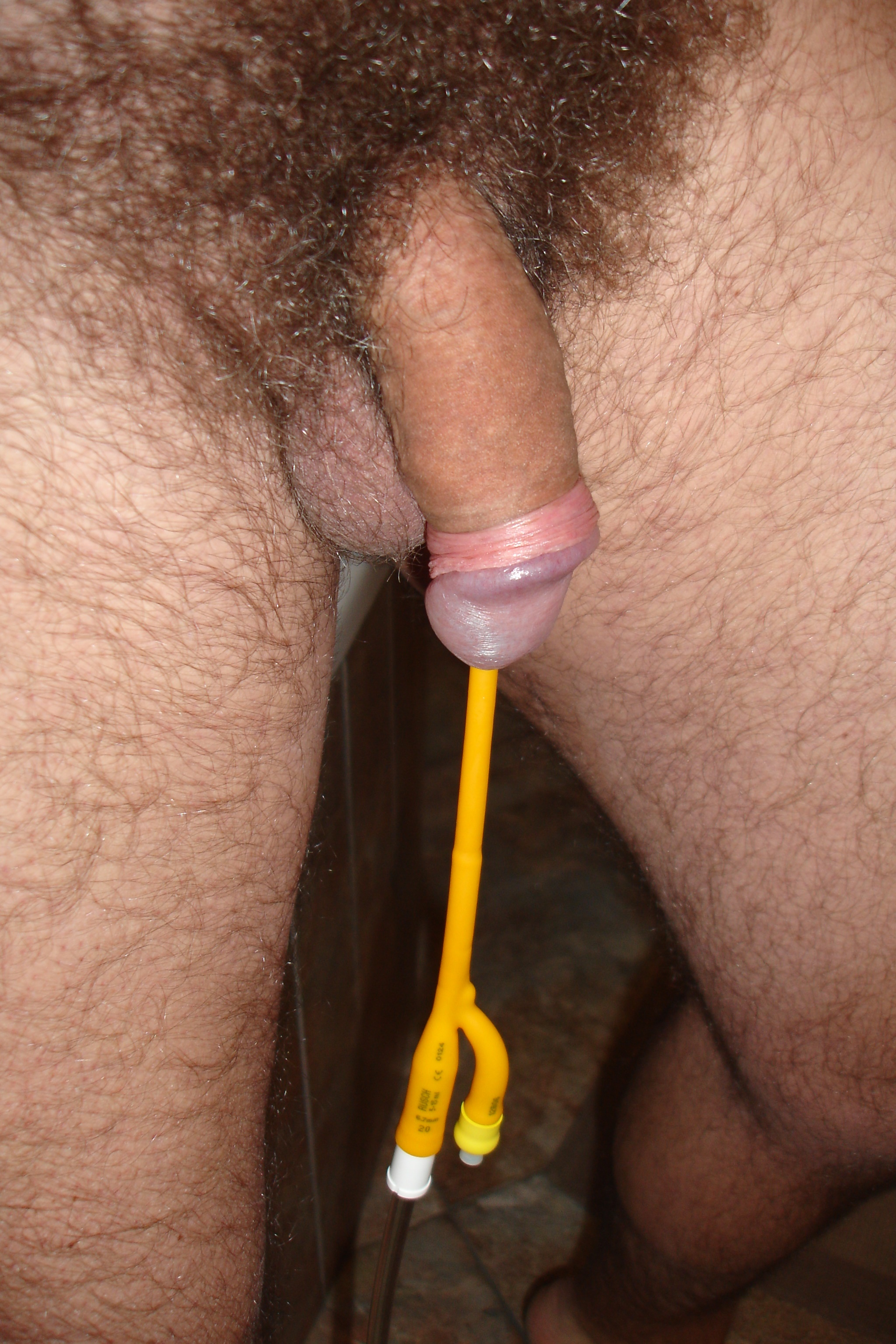 Foley catheter CH 20